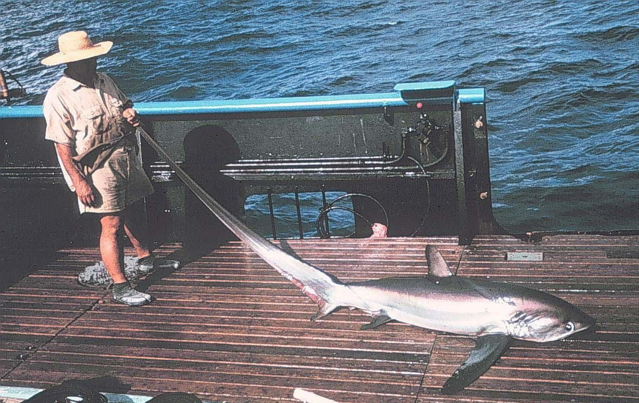 Pelagic thresher shark (Alopias pelagicus)